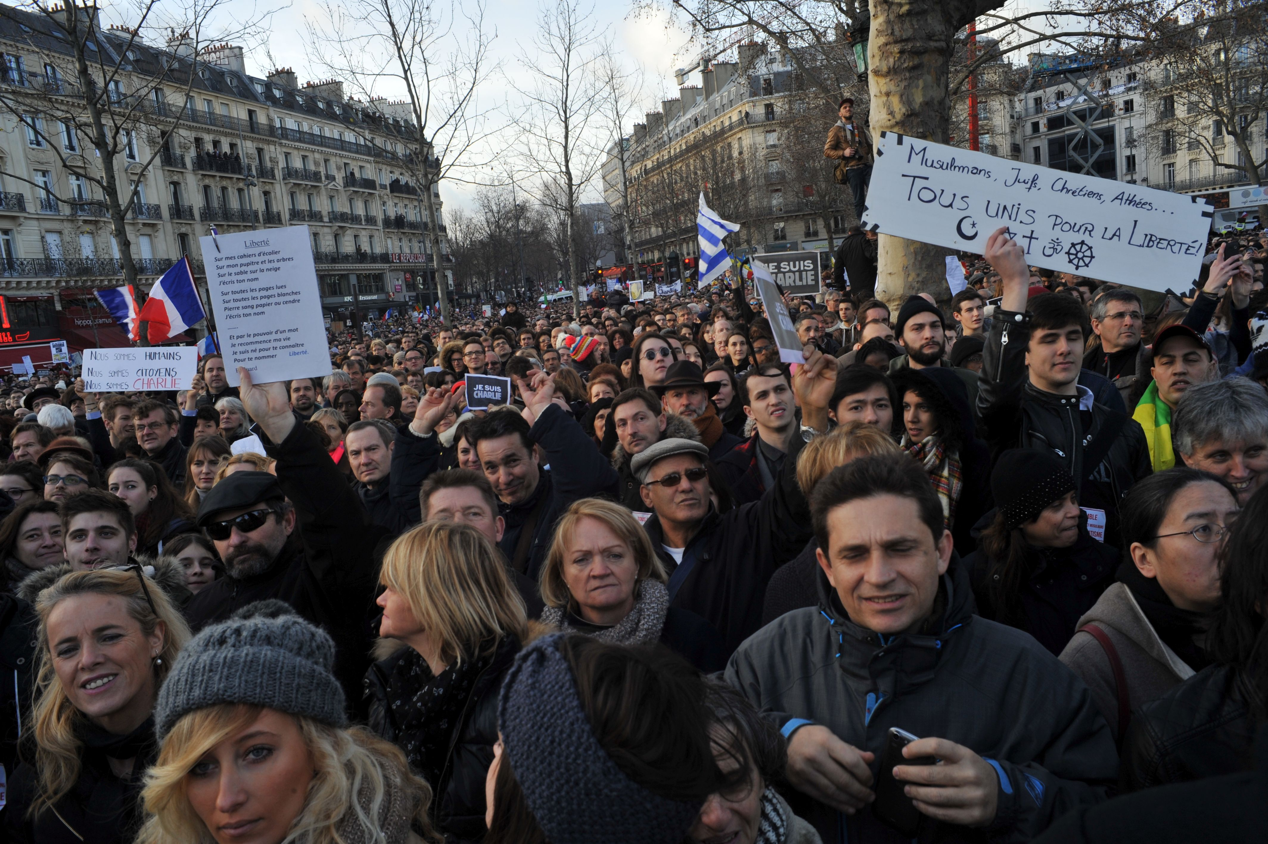 Paris rally in support of the victims of the 2015 Charlie Hebdo shooting, 11 January 2015.